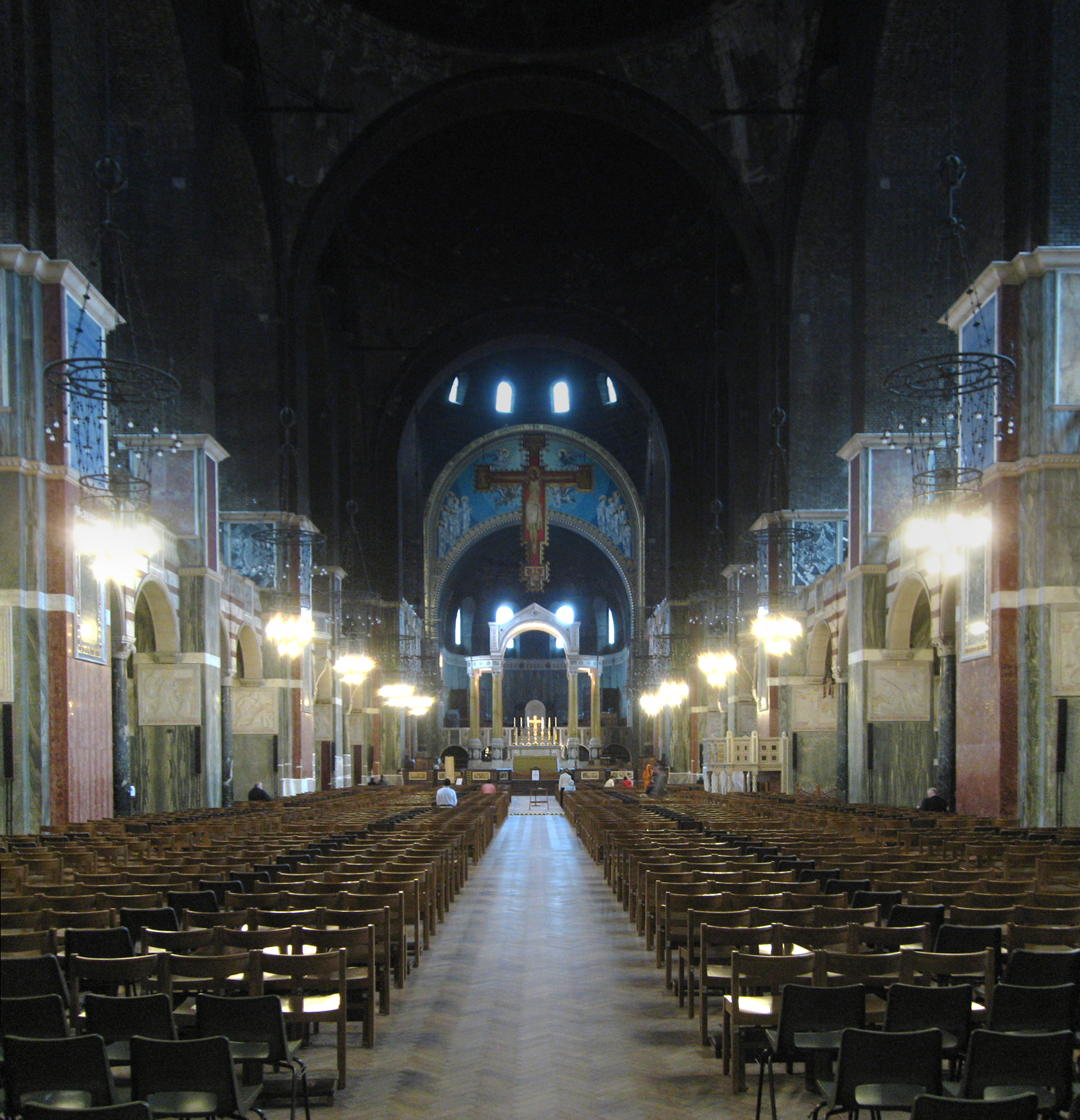 Westminster Cathedral in London.